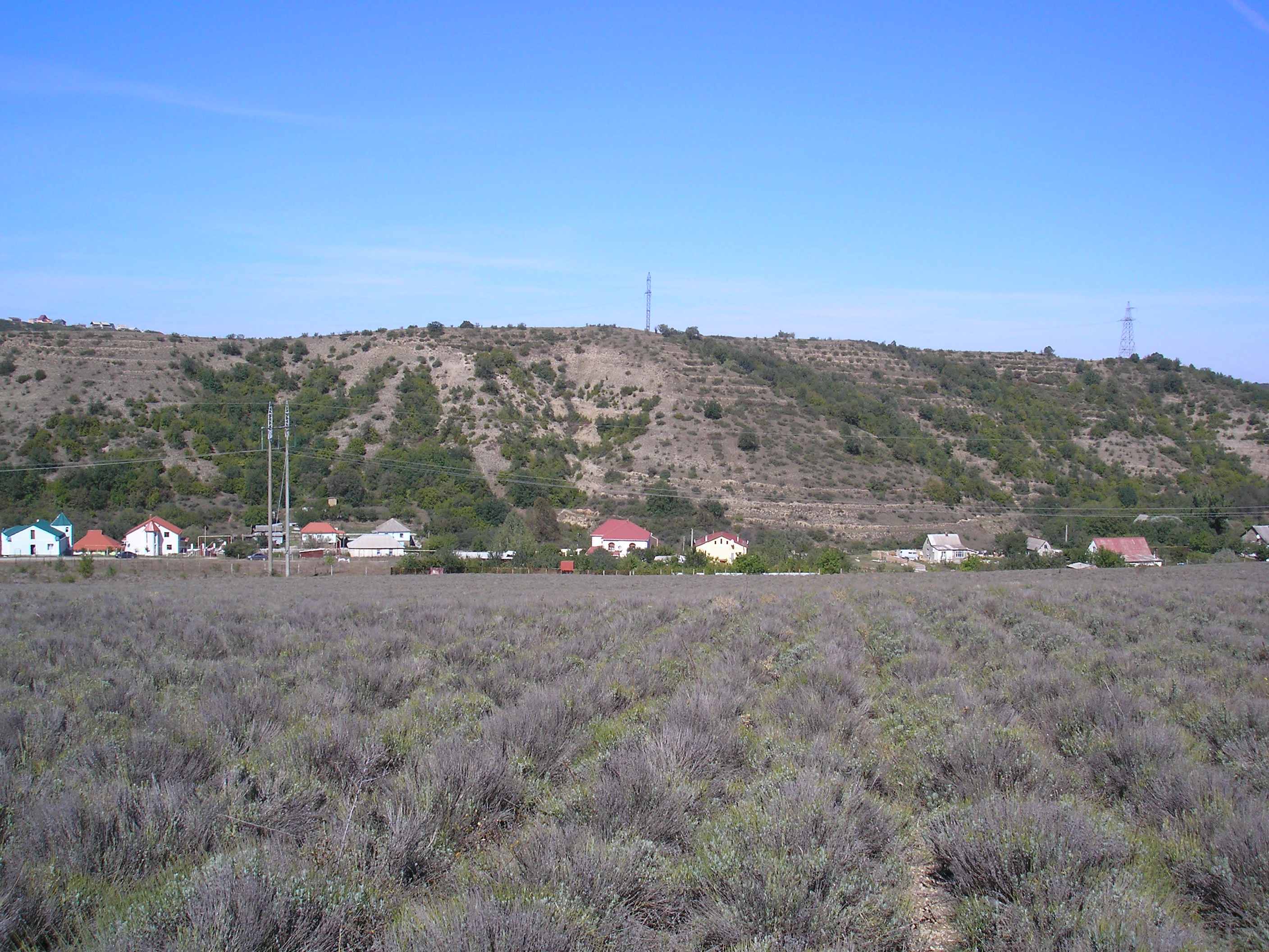 Village Andrusovo, Simferopol district, Crimea